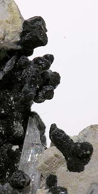 Alamosite, Leadhillite, Melanotekite Locality: Tsumeb, Otjikoto (Oshikoto) Region, Namibia (Locality at ) Size: miniature, 3.5 x 2.5 x 1.5 cm Alamosite, Melanotekite, Leadhillite A small piece but truly oustanding for the finely crystallized alamosite on matrix of finely crysatllized leadhillite, and for the richeness and near-record size of the melanotekite! The overall combination is a relative value in that you get three very rare minerals, in excellent crystals, altogether - and in a displayable specimen, no less!